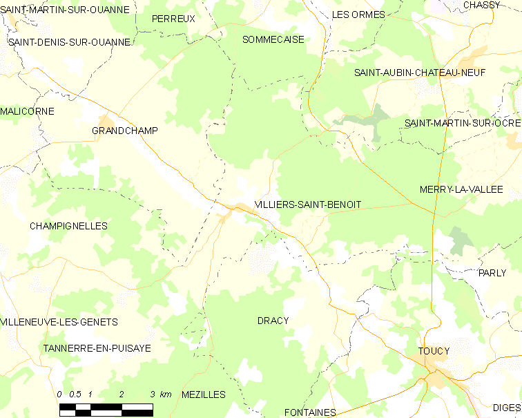 Map of French municipality Villiers-Saint-Benoît